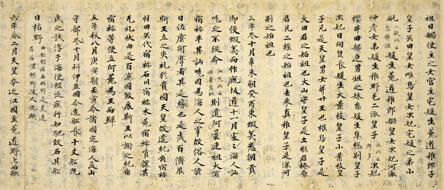 A page from the Tanaka version of the Nihon Shoki